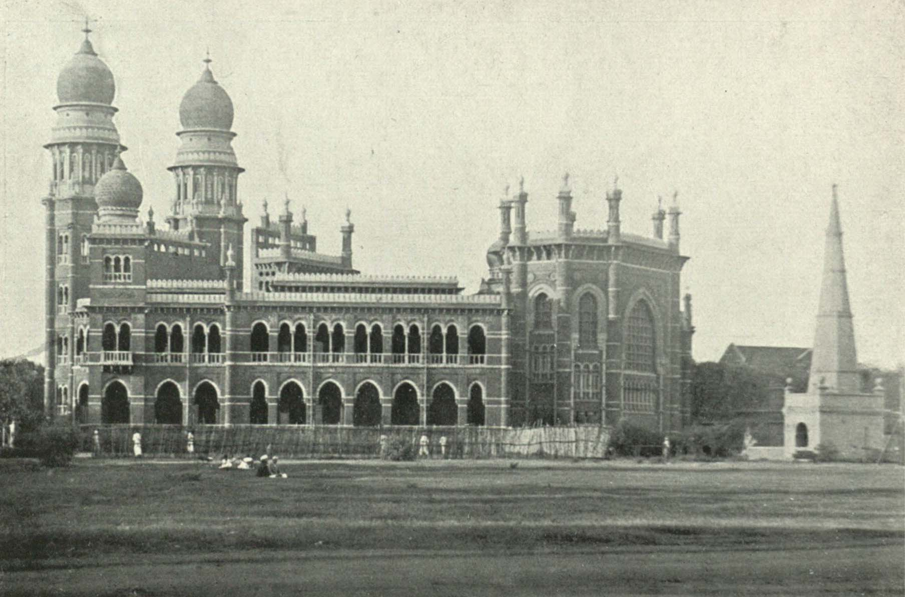 This building is situated next to the High Courts on the Esplanade.